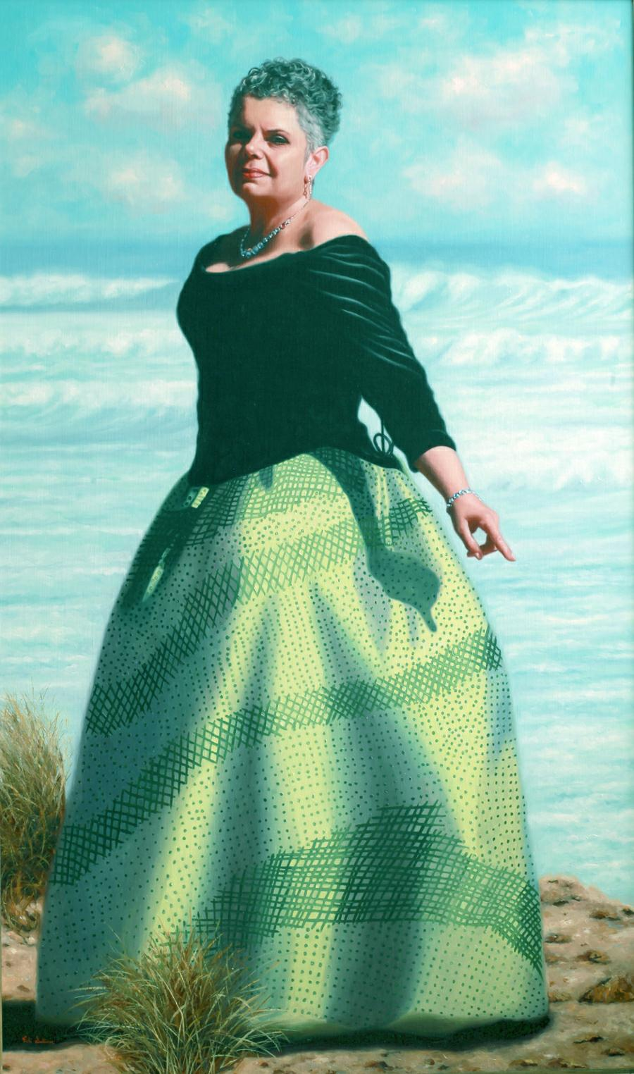 'Verismo' by Vicki Sullivan, oil on linen, h150xw100